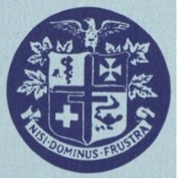 Lincoln hospital emblem. “Nisi Dominus Frustra” translates to: “if not the Lord, [it is] in vain.""